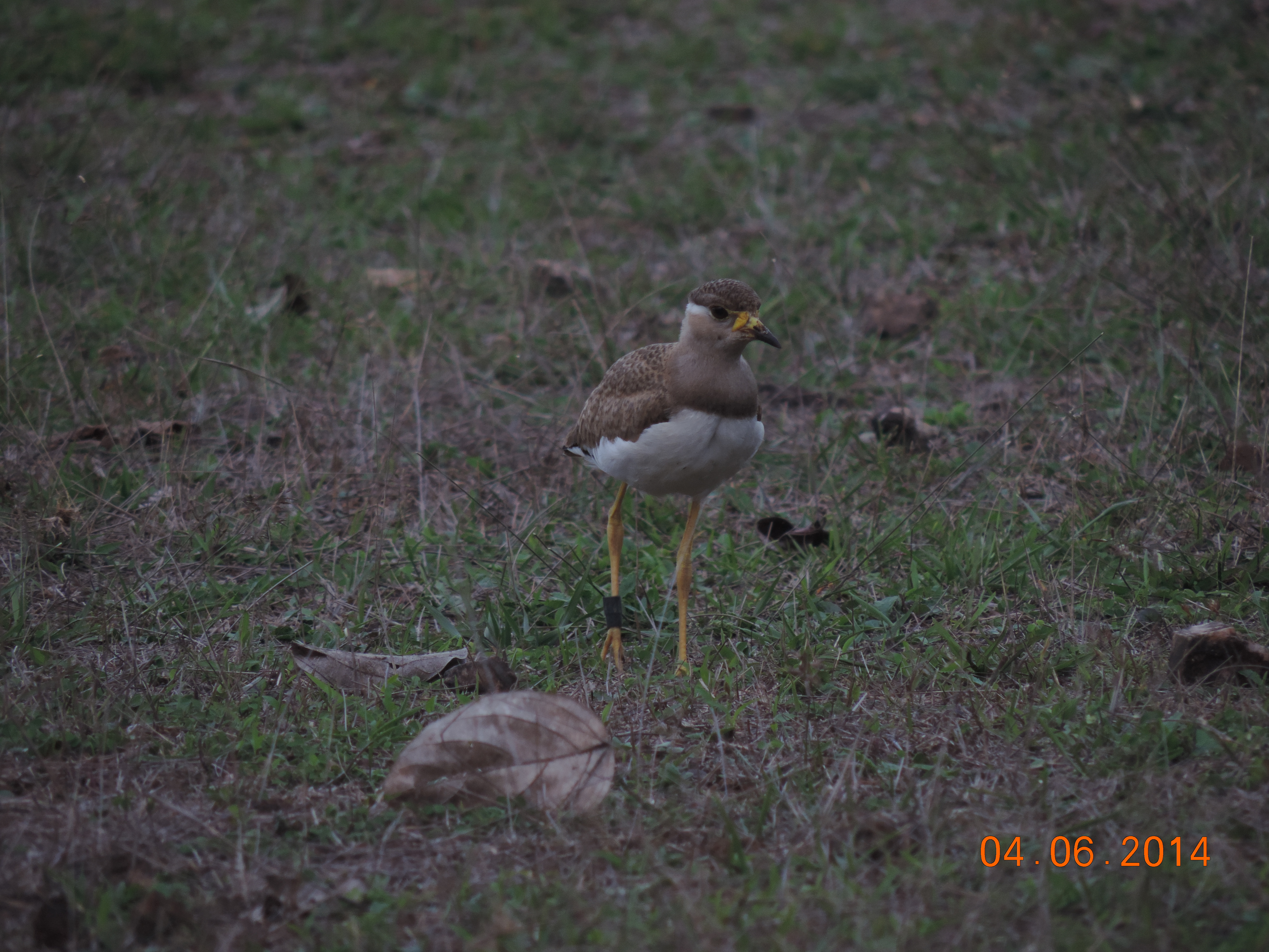 7 week old hatchling of a Yellow Wattled Lapwing.